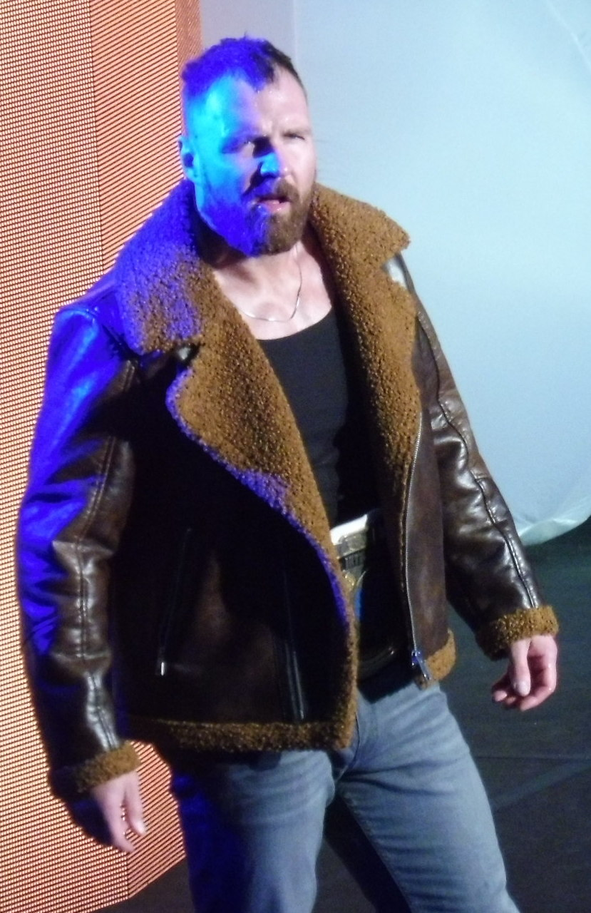 Professional wrestler Dean Ambrose making his entrance in December 2018